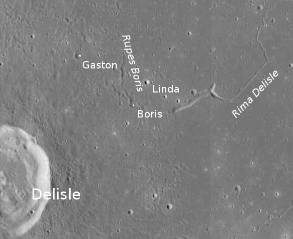 Rupes Boris with minor craters Boris, Gaston and Linda (detail of LRO - WAC global moon mosaic)